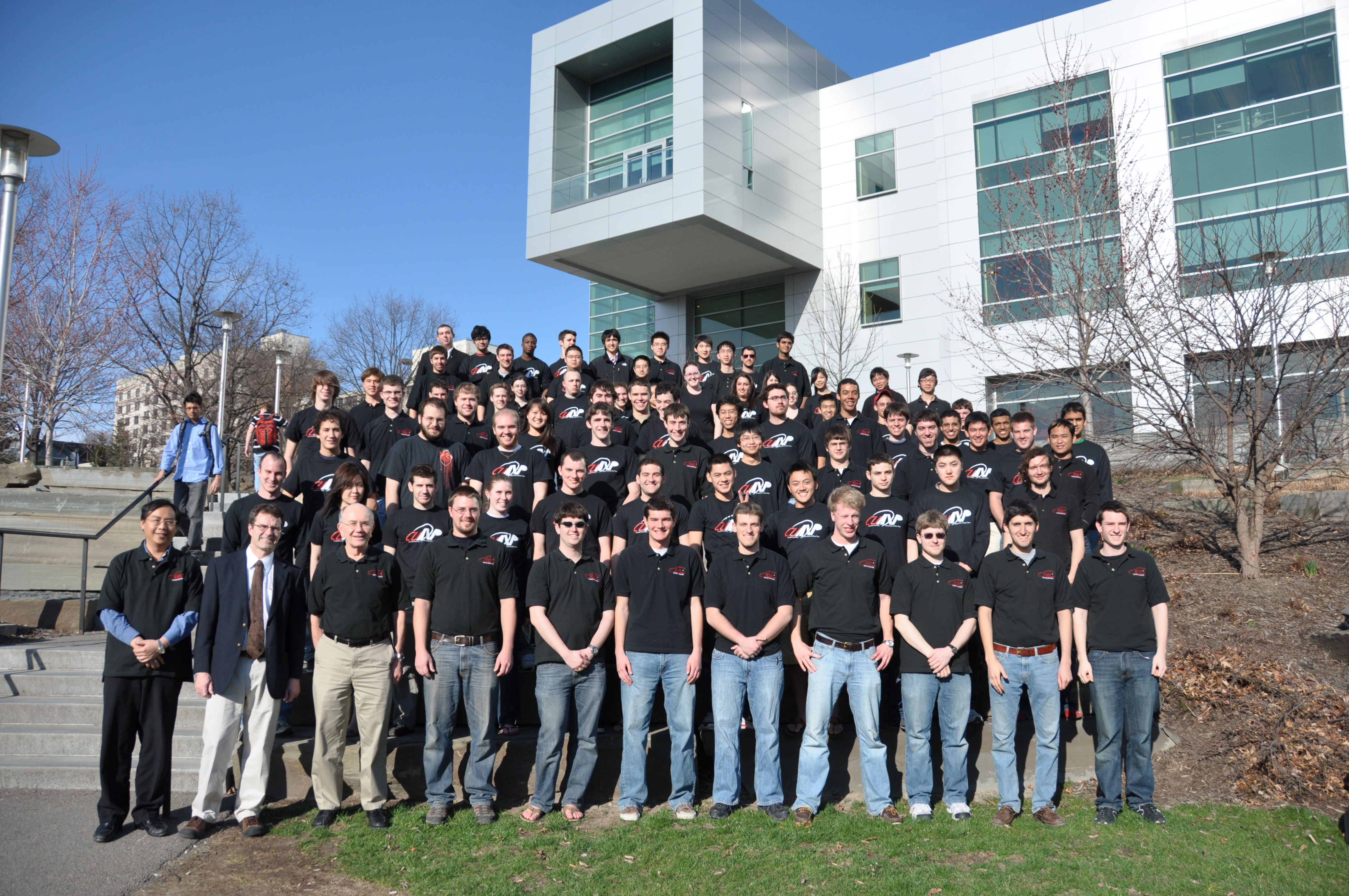 The Cornell 100+ MPG Team